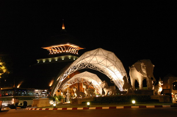 Main Building Porch Chiangmai Night Safari, Thailand